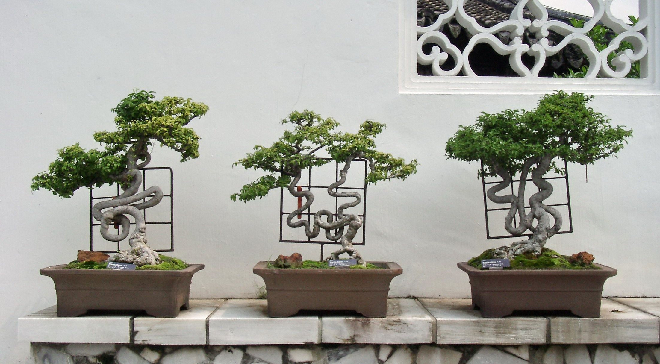 Three Bonsai in the Chinese Garden in Singapore